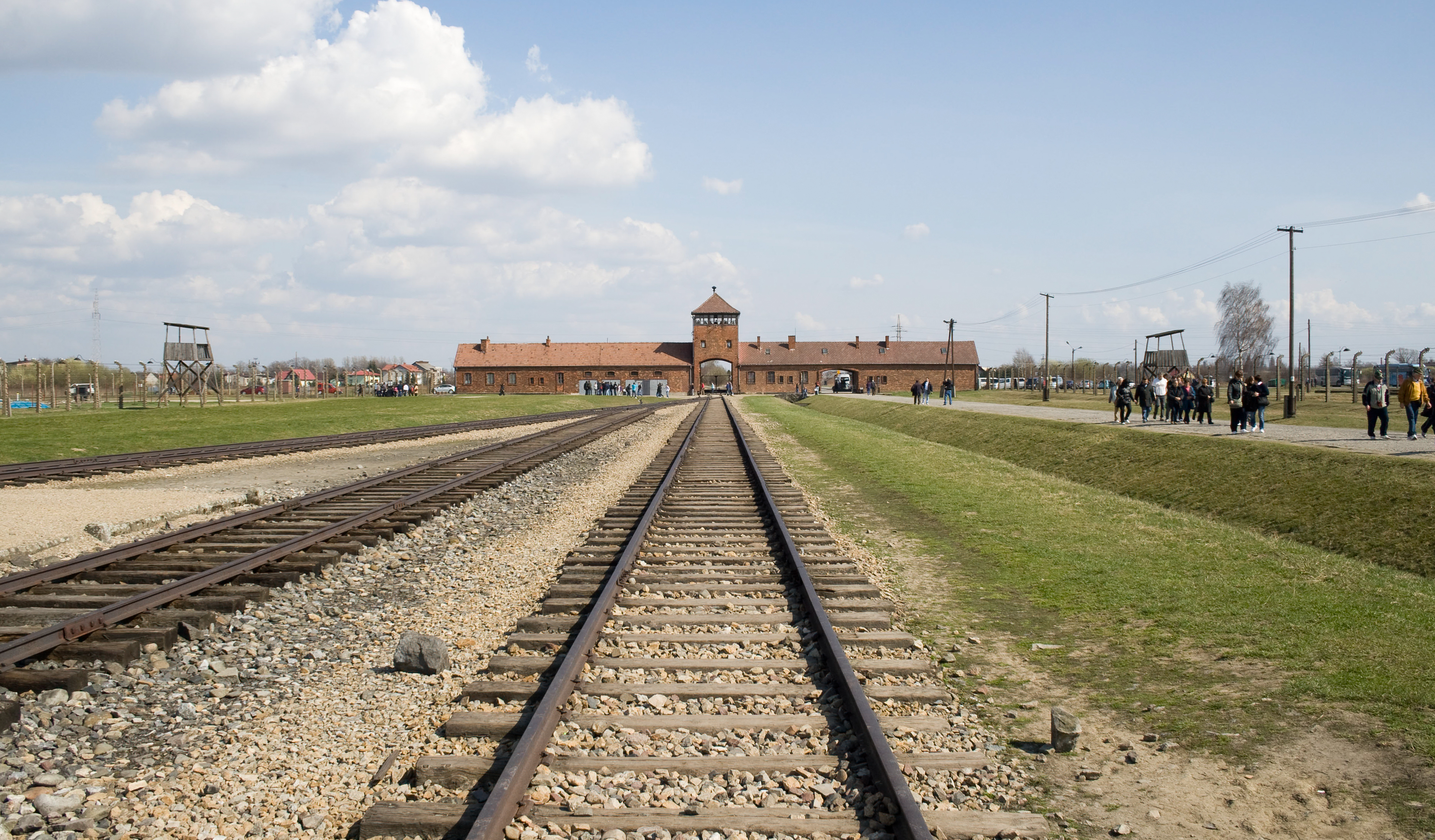 Selection ramp, Auschwitz II (Birkenau), Poland